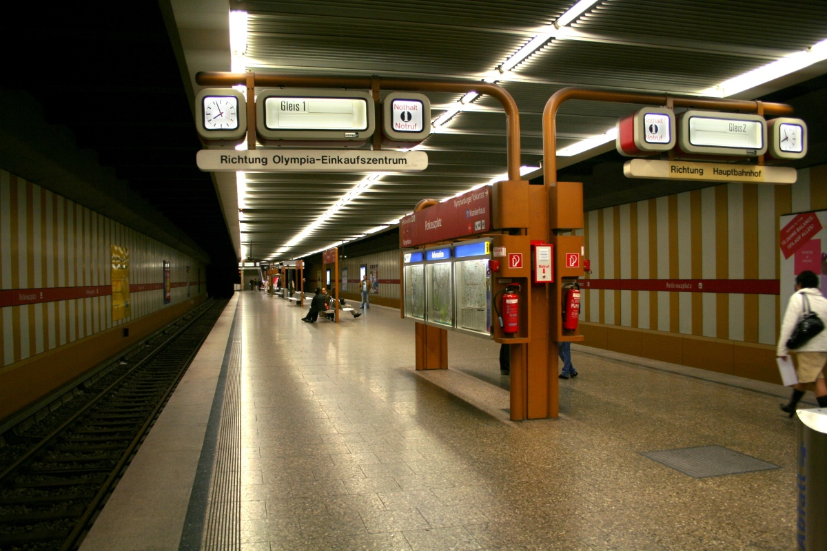 Munich subway station Rotkreuzplatz